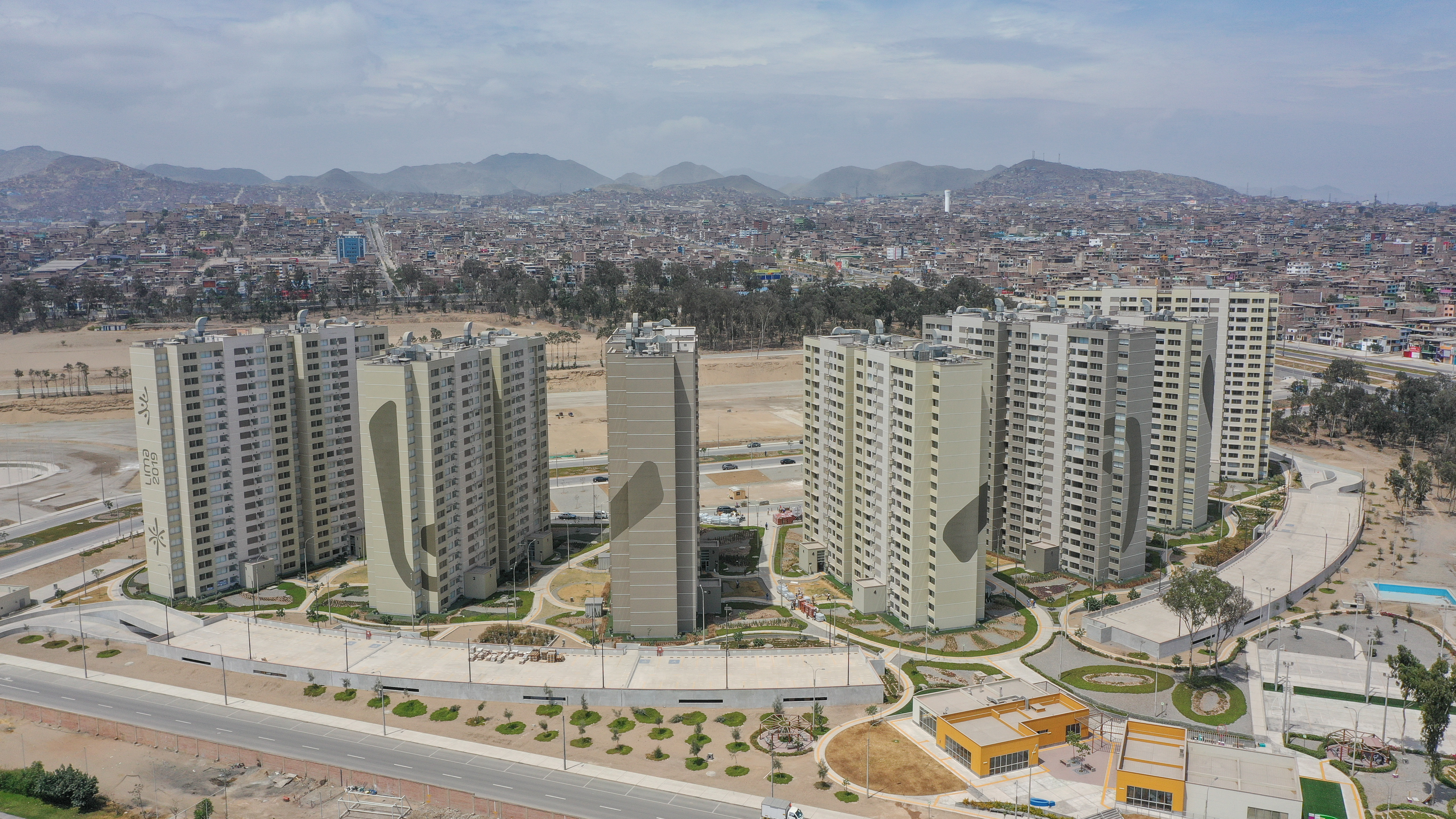 default